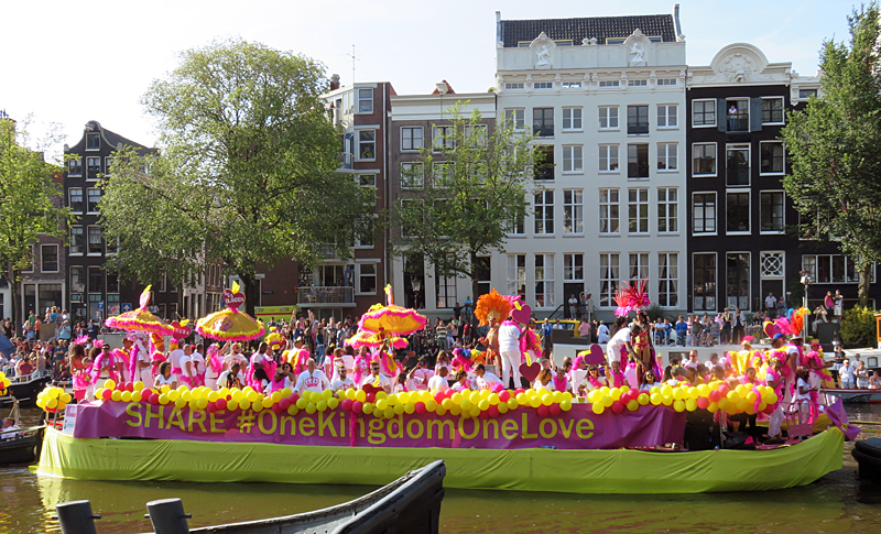 Boat for the oversea parts of the Dutch kingdom, participating in the 2015 Canal Parade of the Amsterdam Gay Pride